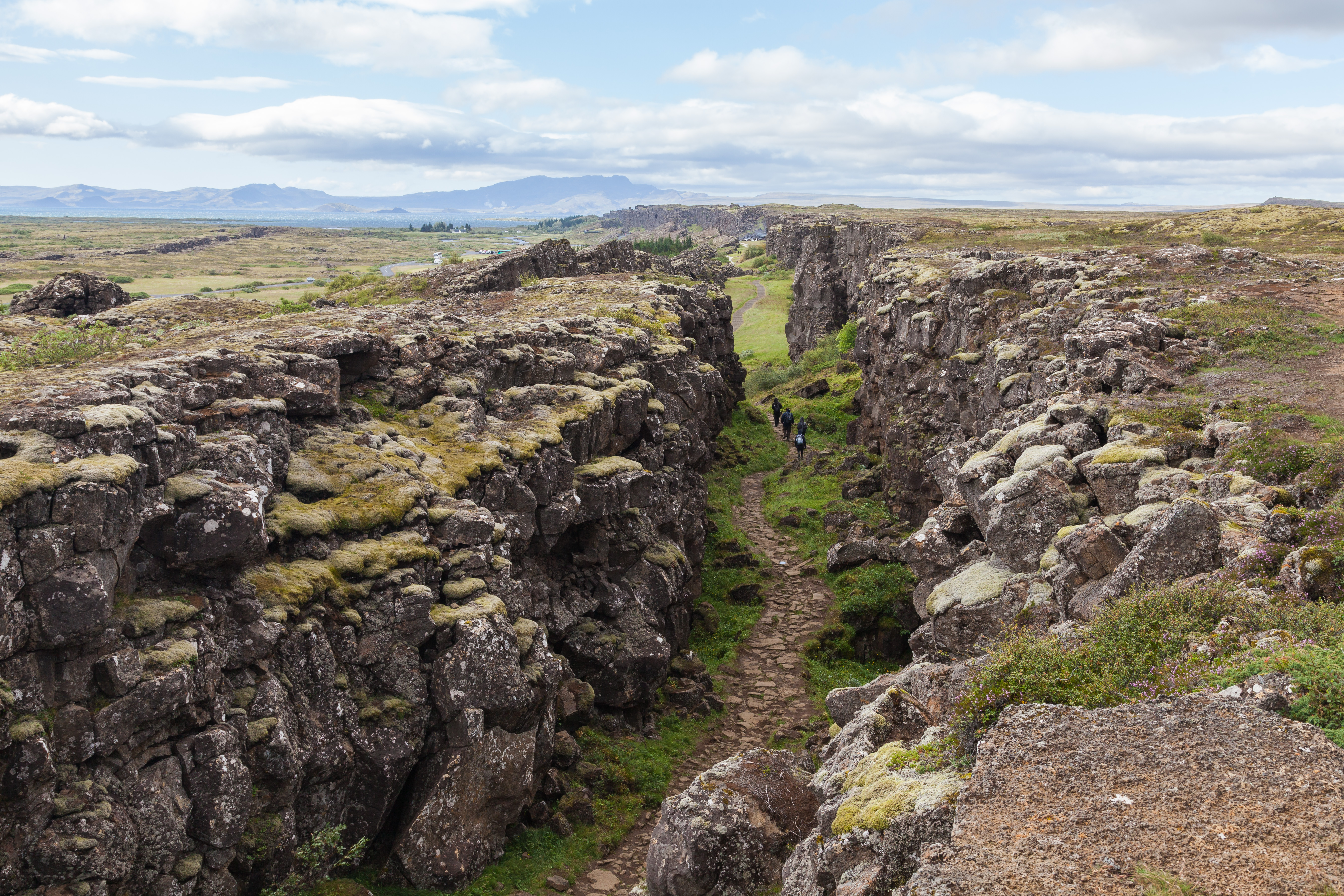 Lögberg (icelandic for Law Rock), Þingvellir National Park, Southern Region, Iceland. The Lögberg was the place on which the lawspeaker (lögsögumaður) took his seat as the presiding official of the assembly of the Althing, the national parliament, from 930 until 1262 (when Iceland took allegiance to Norway). Speeches and announcements were made from the spot and anyone attending could make their argument from the Lögberg.